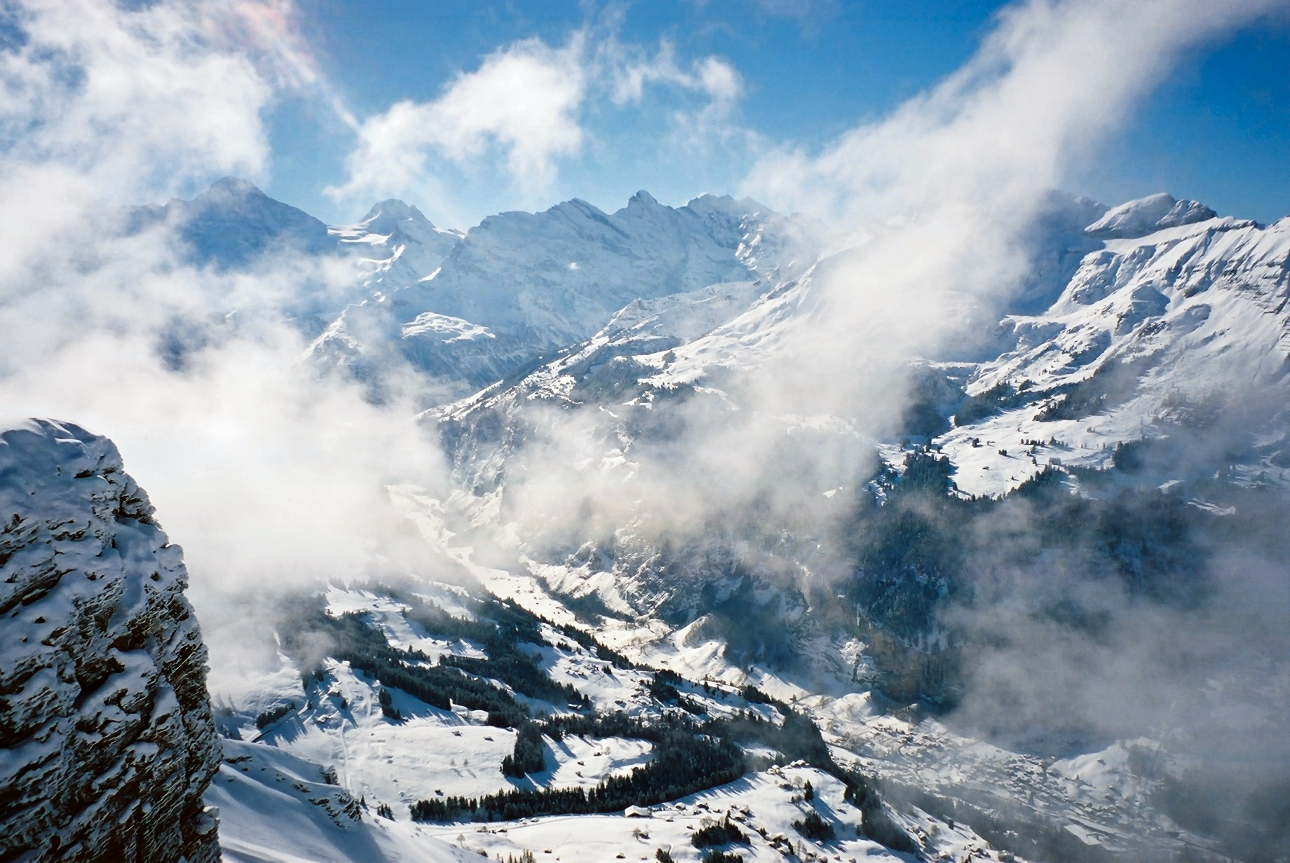 Photograph of Lauterbrunnen valley taken in February 2005 by Keith Halstead. This is now a featured picture on the English Wikipedia. It was the Wikipedia Picture of the Day on 27 November 2005. More photos available here